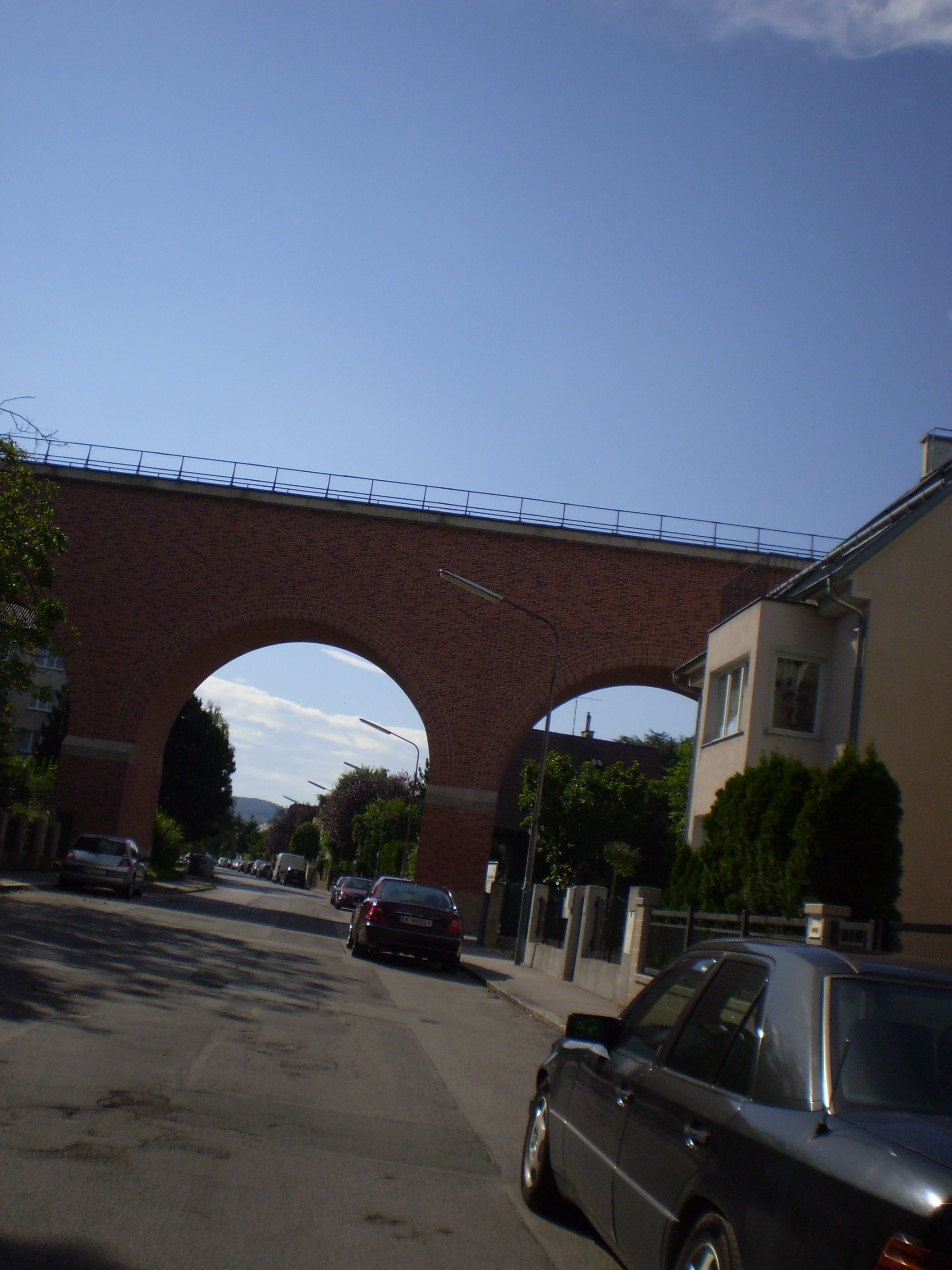 Speising aqueduct in Mauer, Vienna. View from the east through Tullnertalgasse.